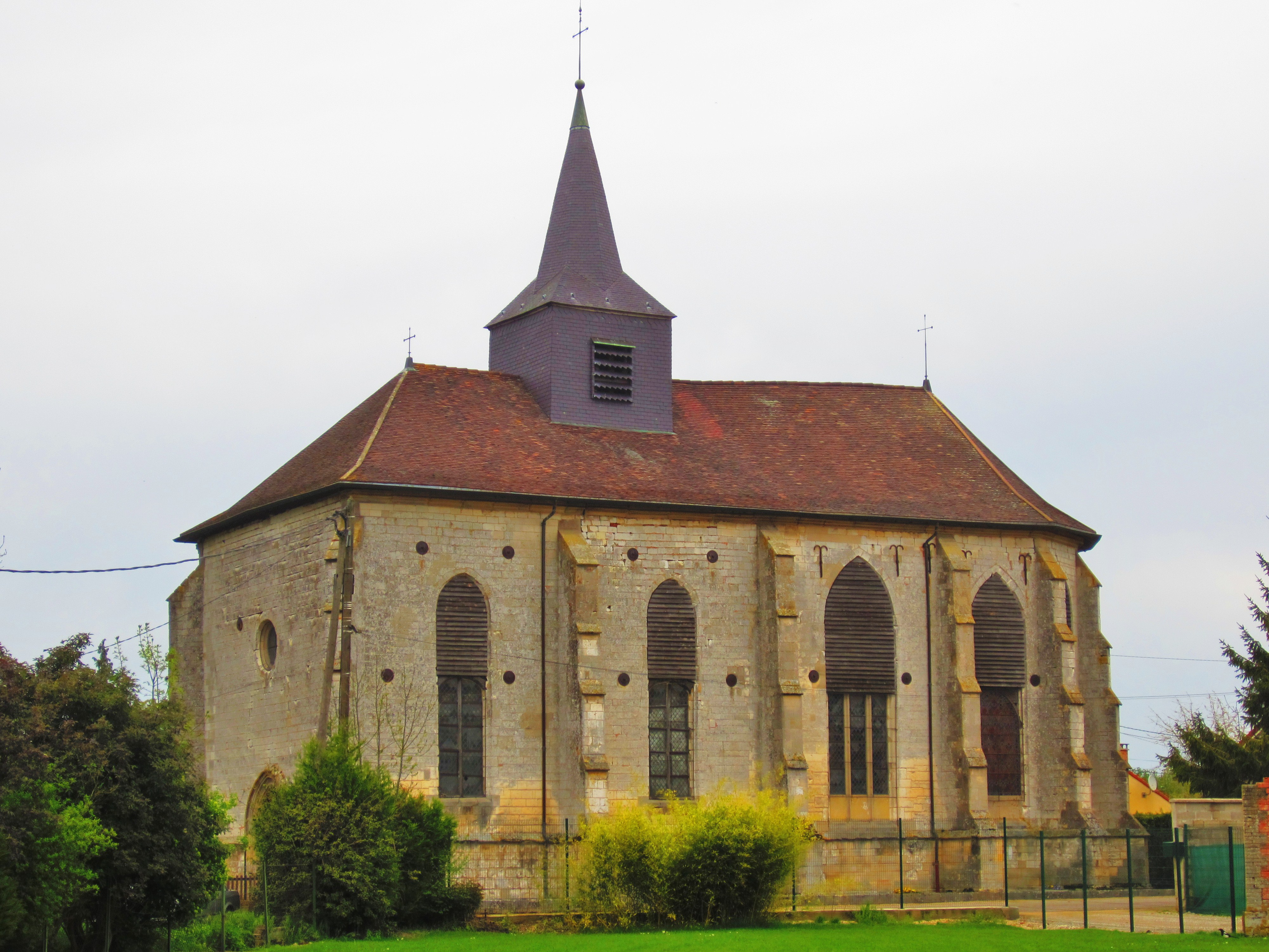 Vauclerc church